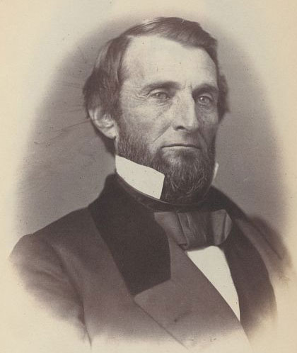 John C. Mason, Representative from Kentucky, Thirty-fifth Congress, half-length portrait